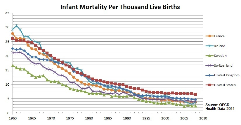 This image depicts the trend for infant mortality between 1960 to 2008 for the five first world nations of France, Ireland, Sweden, Switzerland, the United Kingdom, and the United States. An 'OECD Health Data 2011' report is used for the information, which is available here. Note that the y-axis information is per 1000 live births.